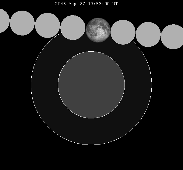 August 2045 lunar eclipse chart of moon's path through the earth's shadow. thumb